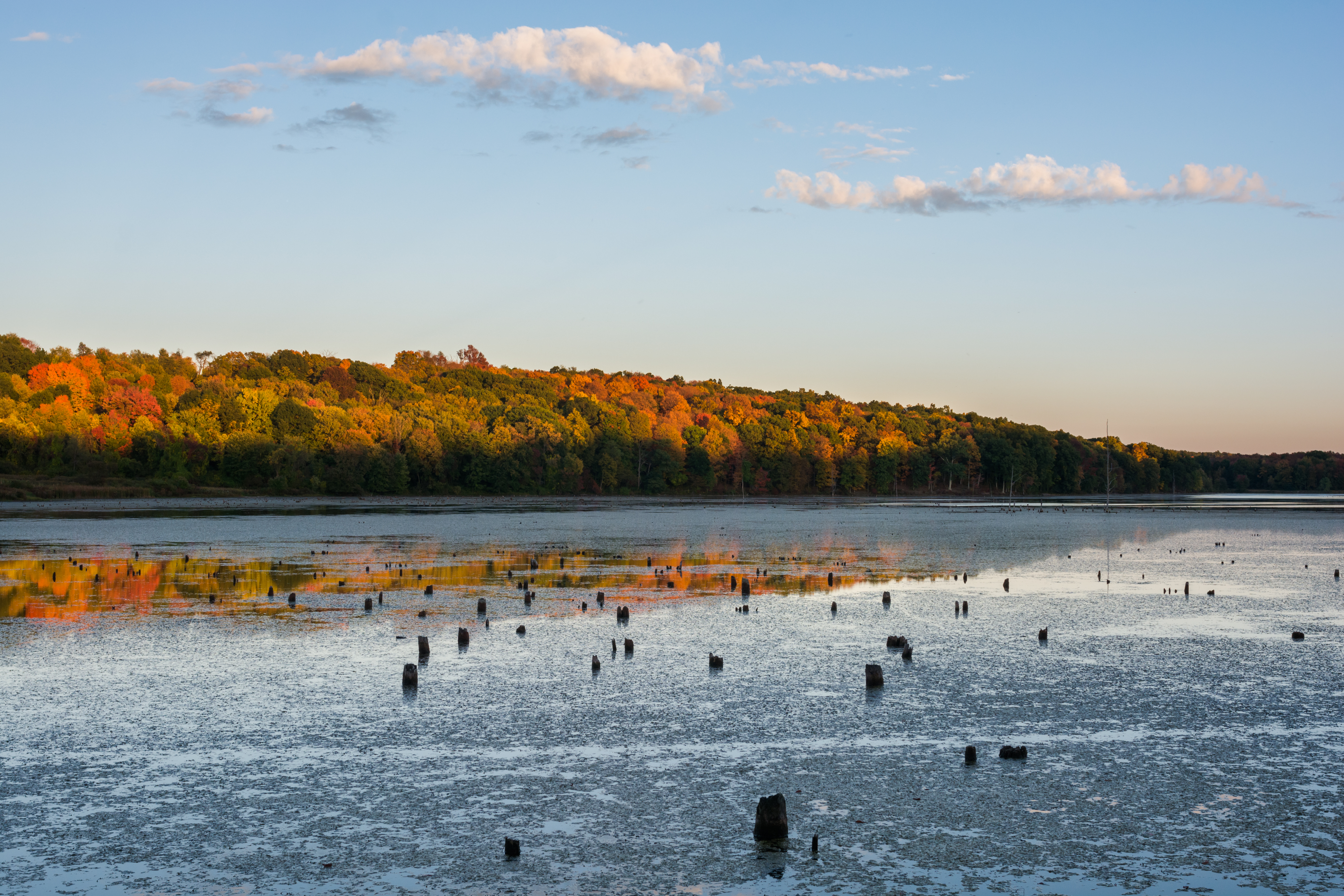 Low water levels at Bontecou Lake in Dutchess County, New York, revealing many stumps of the tamarack trees that were flooded during the creation of the lake.